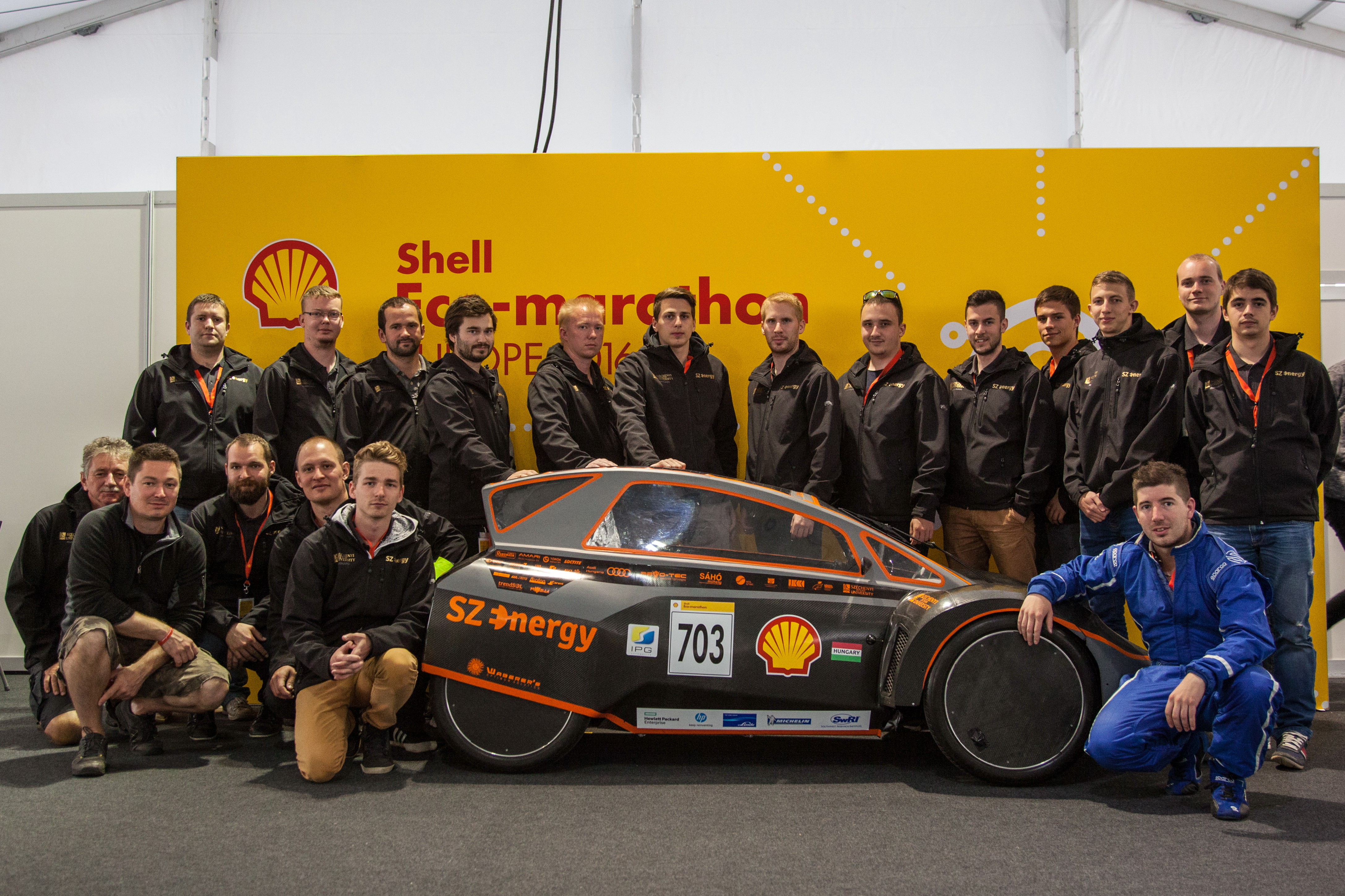 Shell Eco marathon 2016